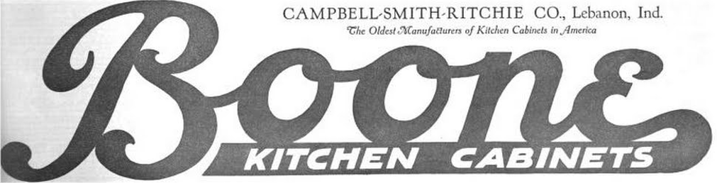 This is a crop of the Boone Kitchen Cabinets logo from an advertisement on page 189 of the Ladies Home Journal September 1922.